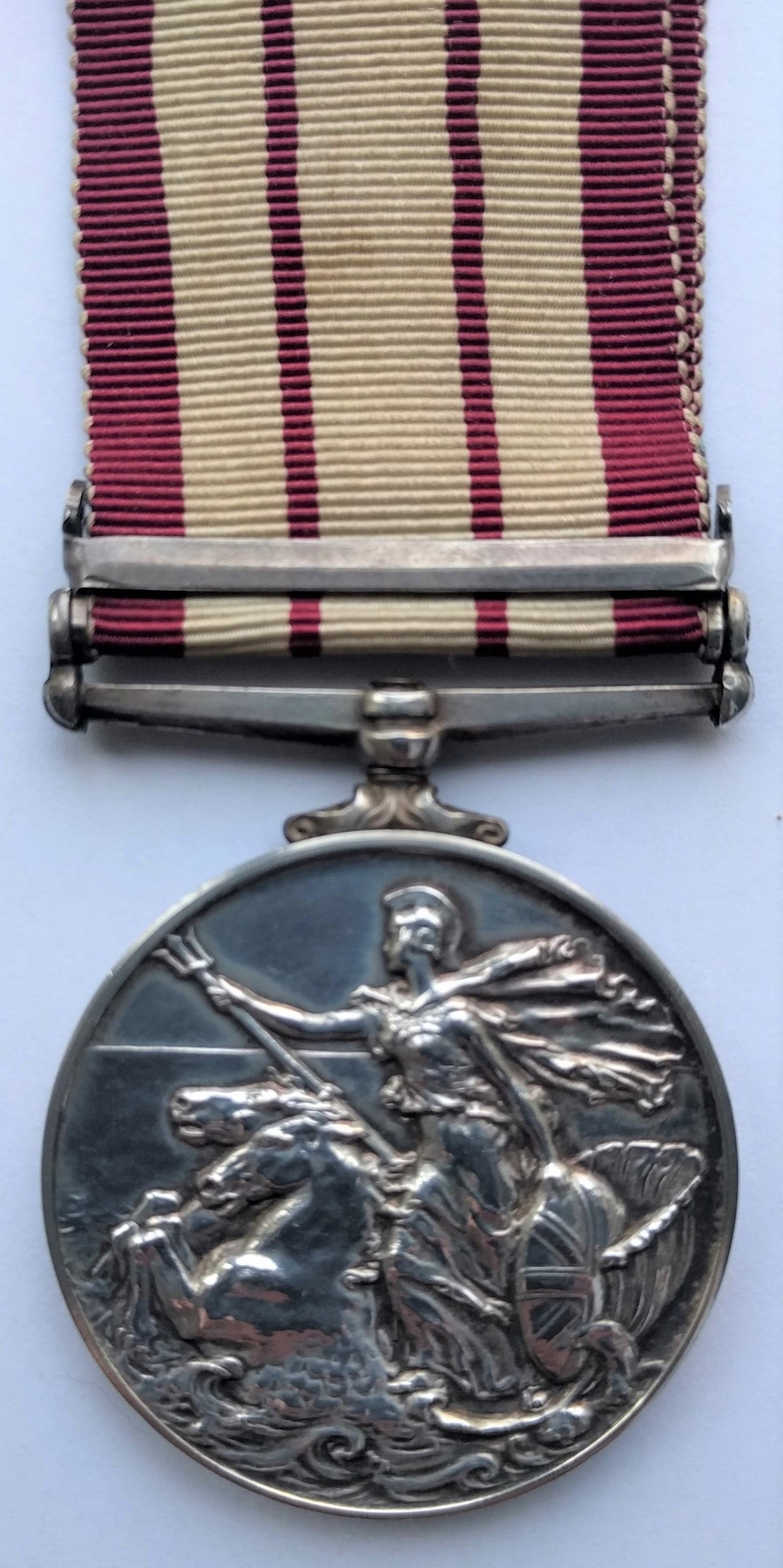 British campaign medal for service by the Navy and Marines in small campaigns.